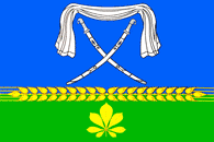 Flag of Novopokrovskoe rural settlement, Novopokrovsky rayon, Krasnodar Territory, Russia